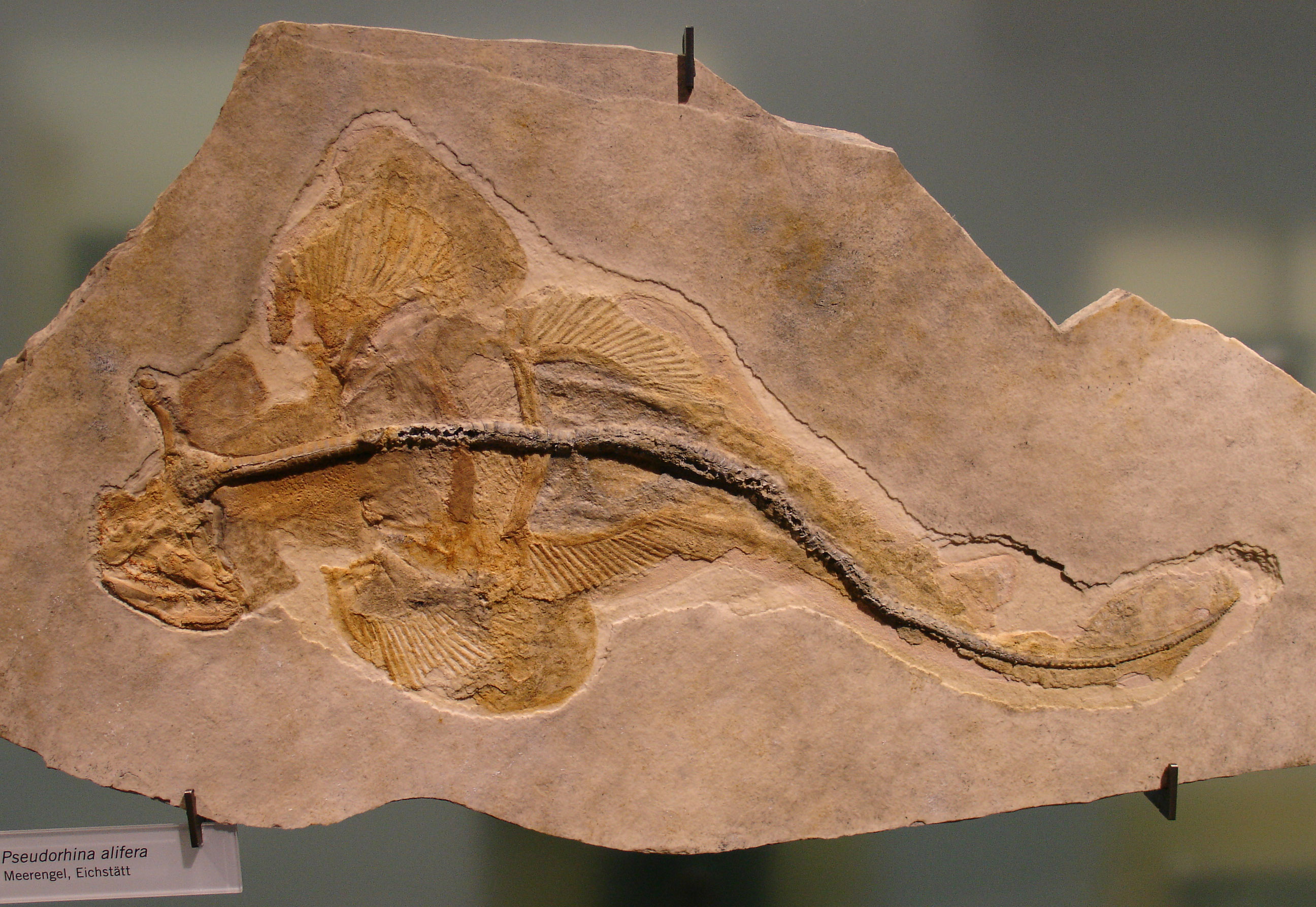 Pseudorhina alifera - fossil. The exhibit from the Museum of Natural History in Berlin (Museum für Naturkunde) Pseudorhina alifera - skamielina z Muzeum Historii Naturalnej w Berlinie